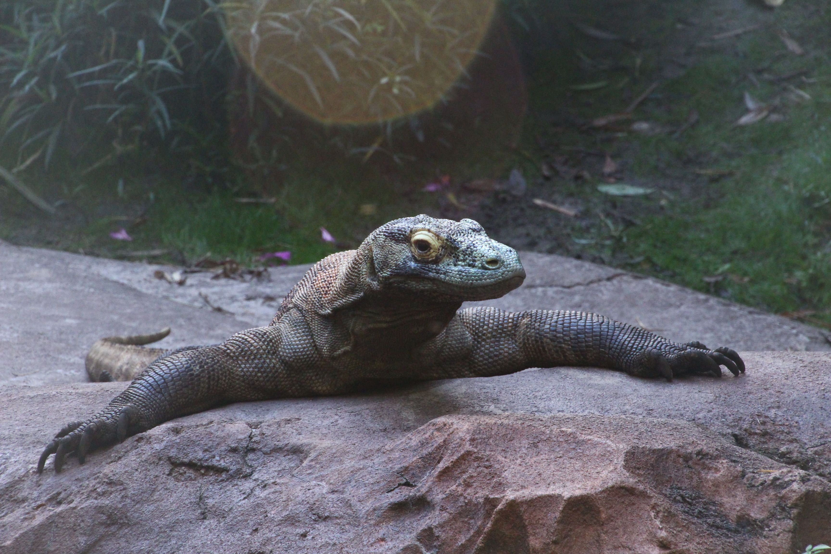 Komodo dragon at Disney's Animal Kingdom theme park in Orlando, Florida.